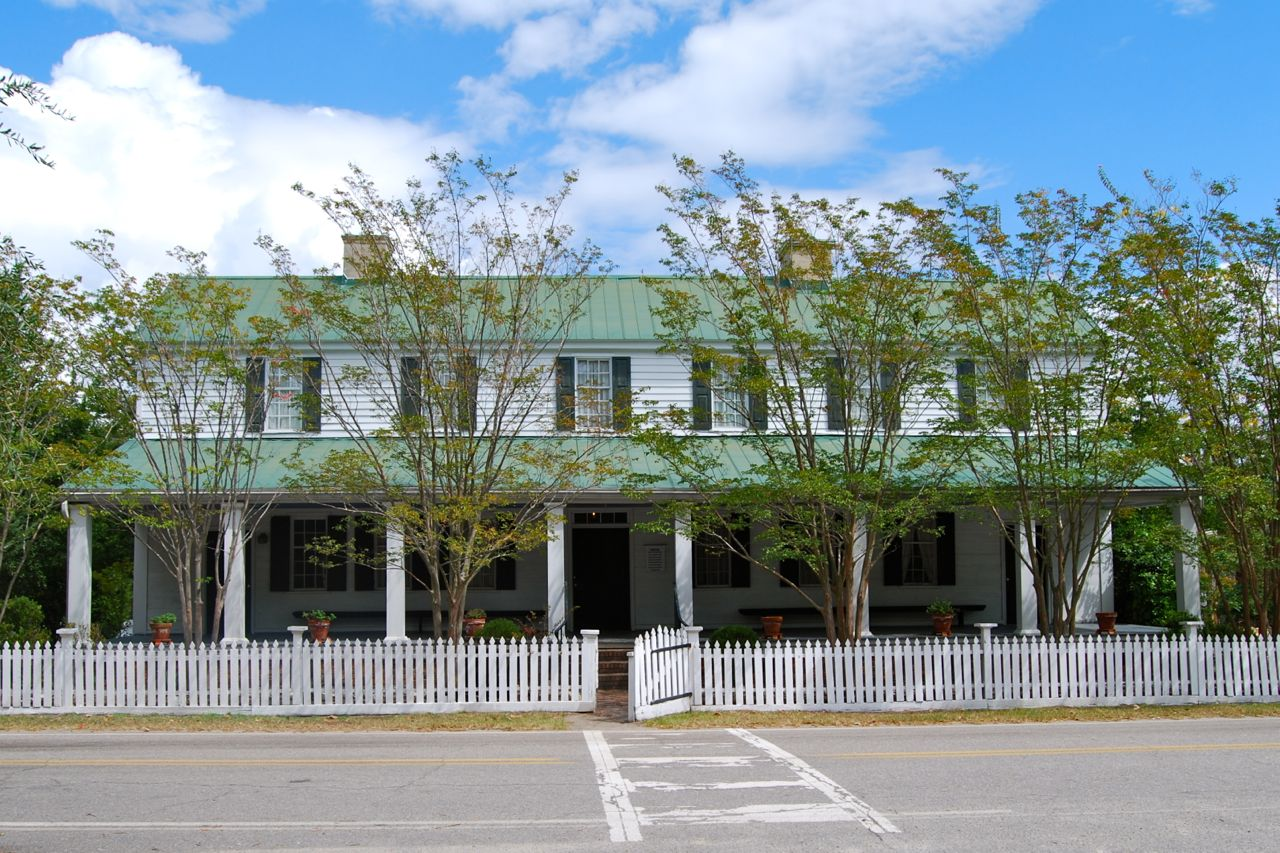 Fox House